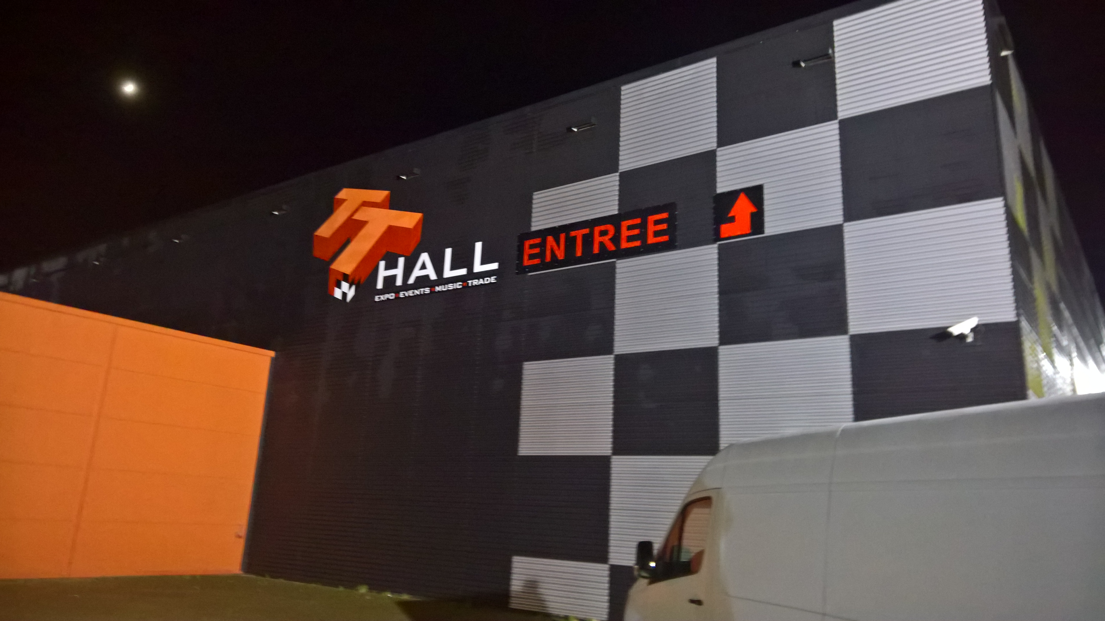 A view of the TT-Hall in Assen at night 🌃.